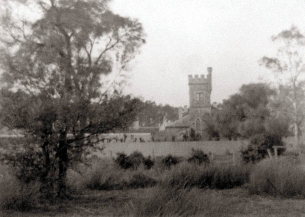 Photo of the grounds which Port Adelaide and other local football teams played at from the 1870s until 1881.